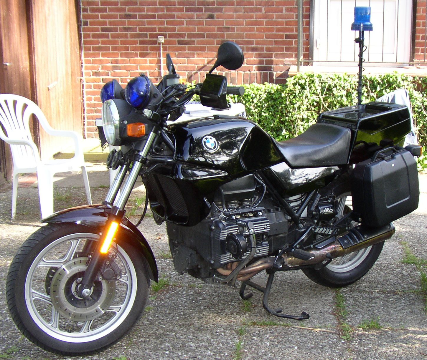 Eskorten-Motorcycle BMW K75 of the German military police